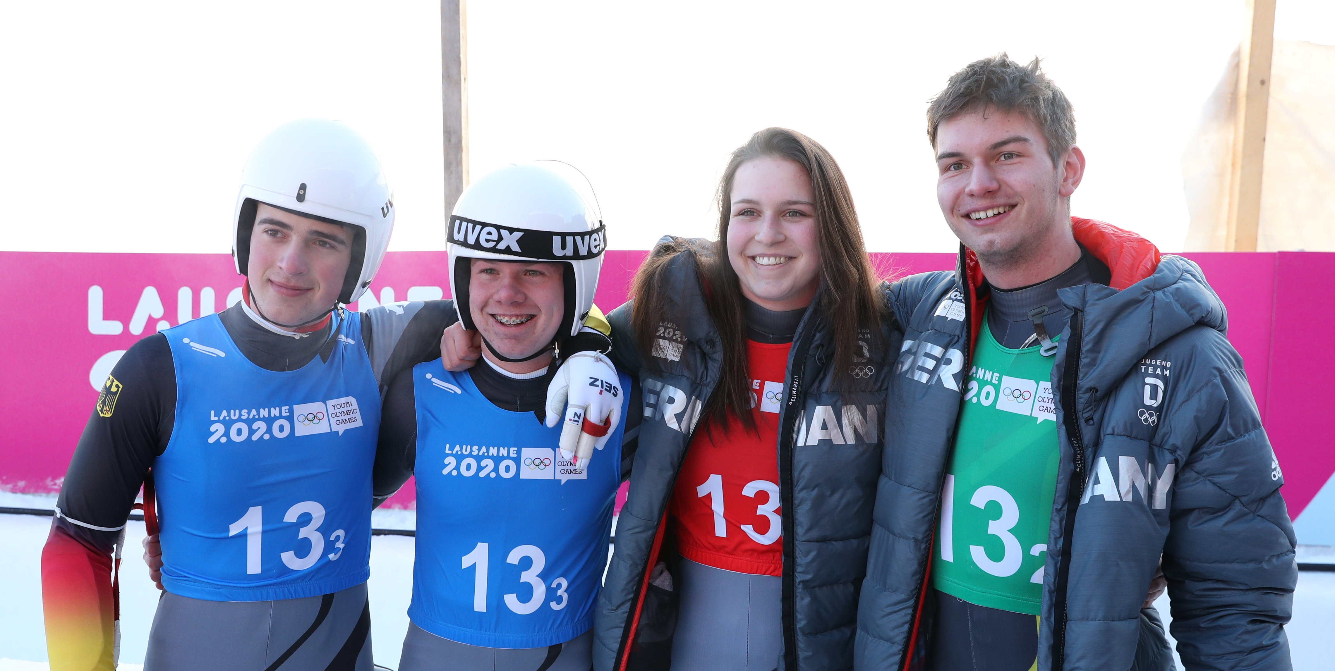 Luge Team Relay at the 2020 Winter Youth Olympics in Lausanne